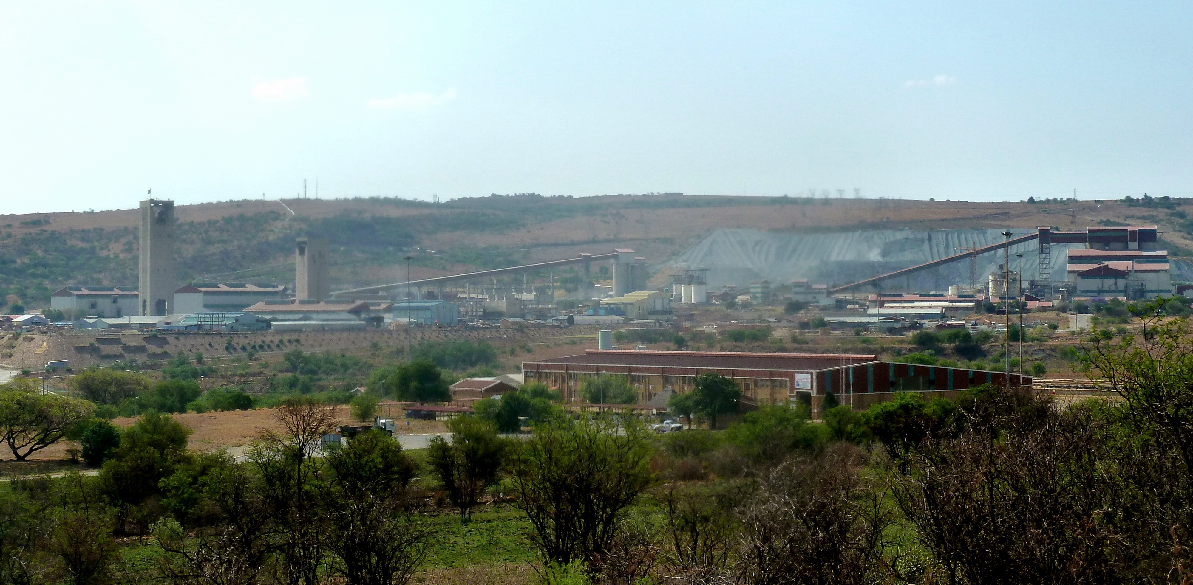 Mponeng Gold Mine in the West Rand DM, Gauteng, South Africa